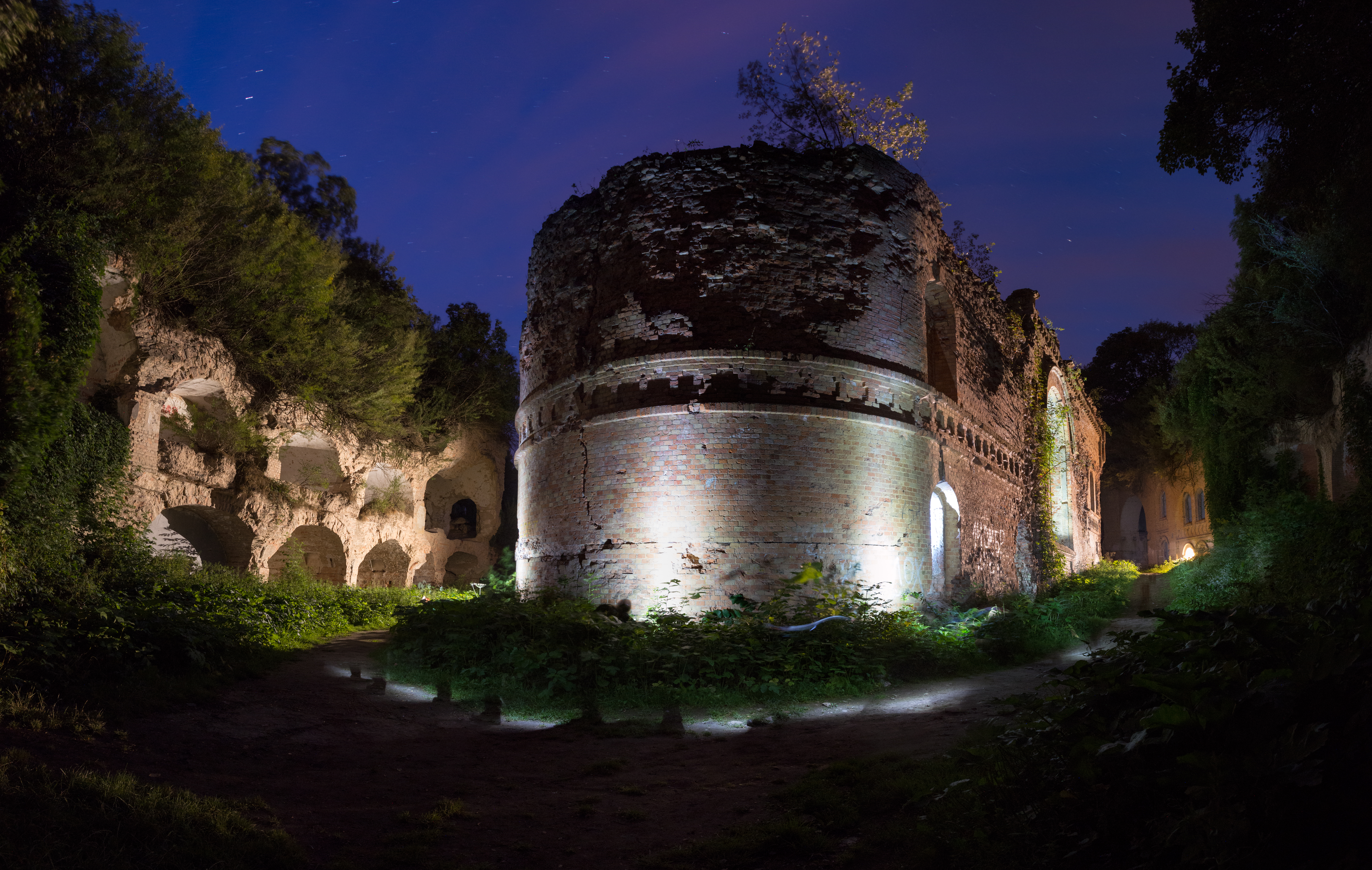 Abandoned Tarakaniv Fort in the night with illumination. Ukraine, Rivne oblast